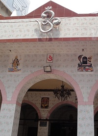 The logo of 'Om' in Joy Kali Temple